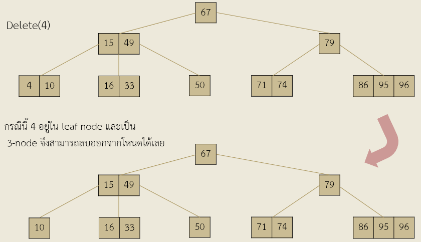 กรณีที่เลขที่ต้องการลบอยู่ใน leaf node และเป็น 3-node